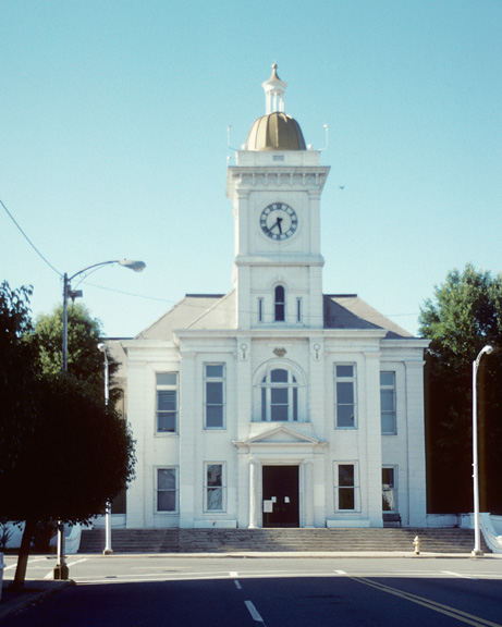 Jefferson County Courthouse - Pine Bluff, Arkansas